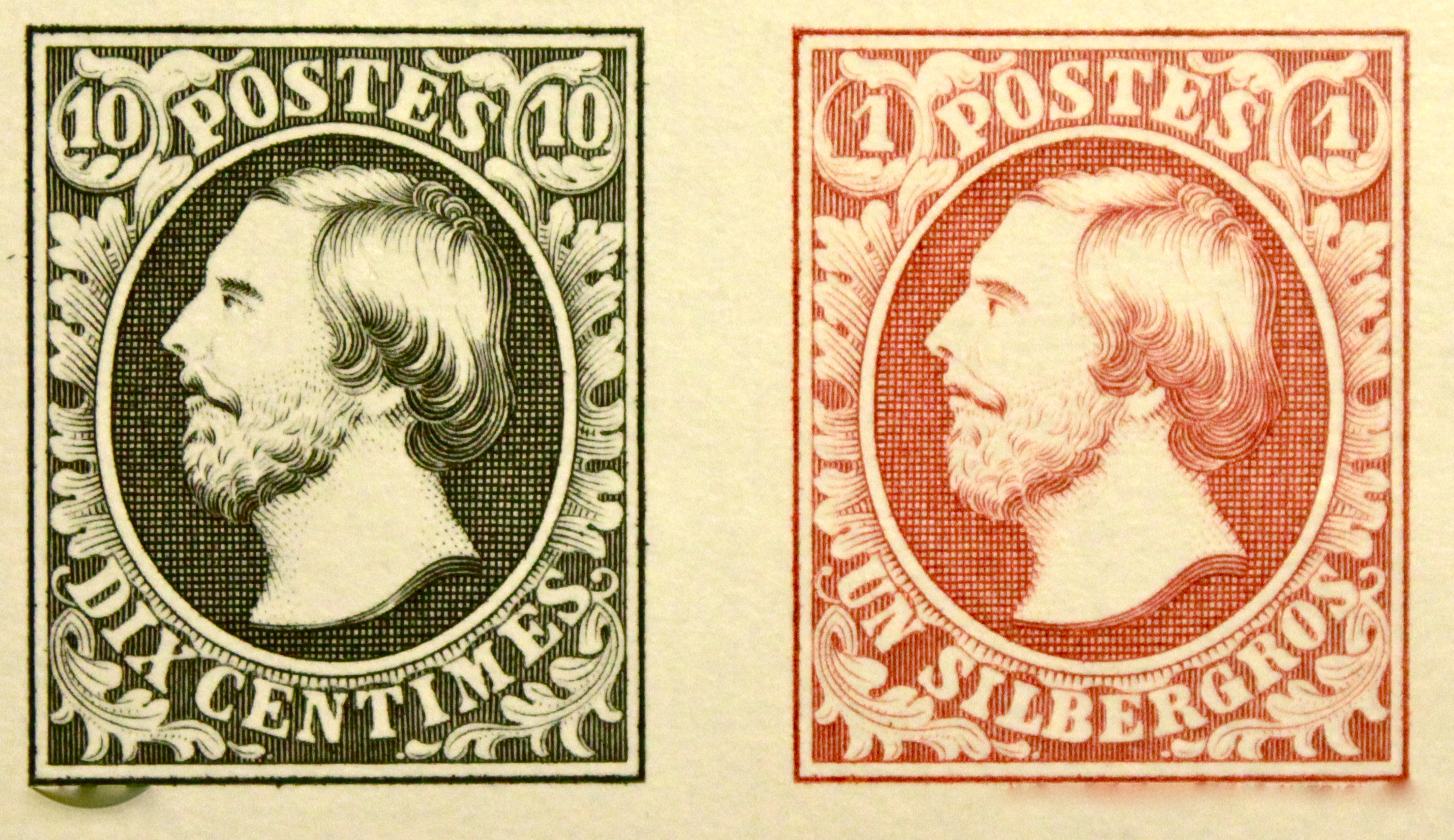 First two postage stamps from Luxembourg, issued 1852 (Portraits of William III of the Netherlands, Grand Duke of Luxembourg). Photography of facsimile reproduction from 1977.